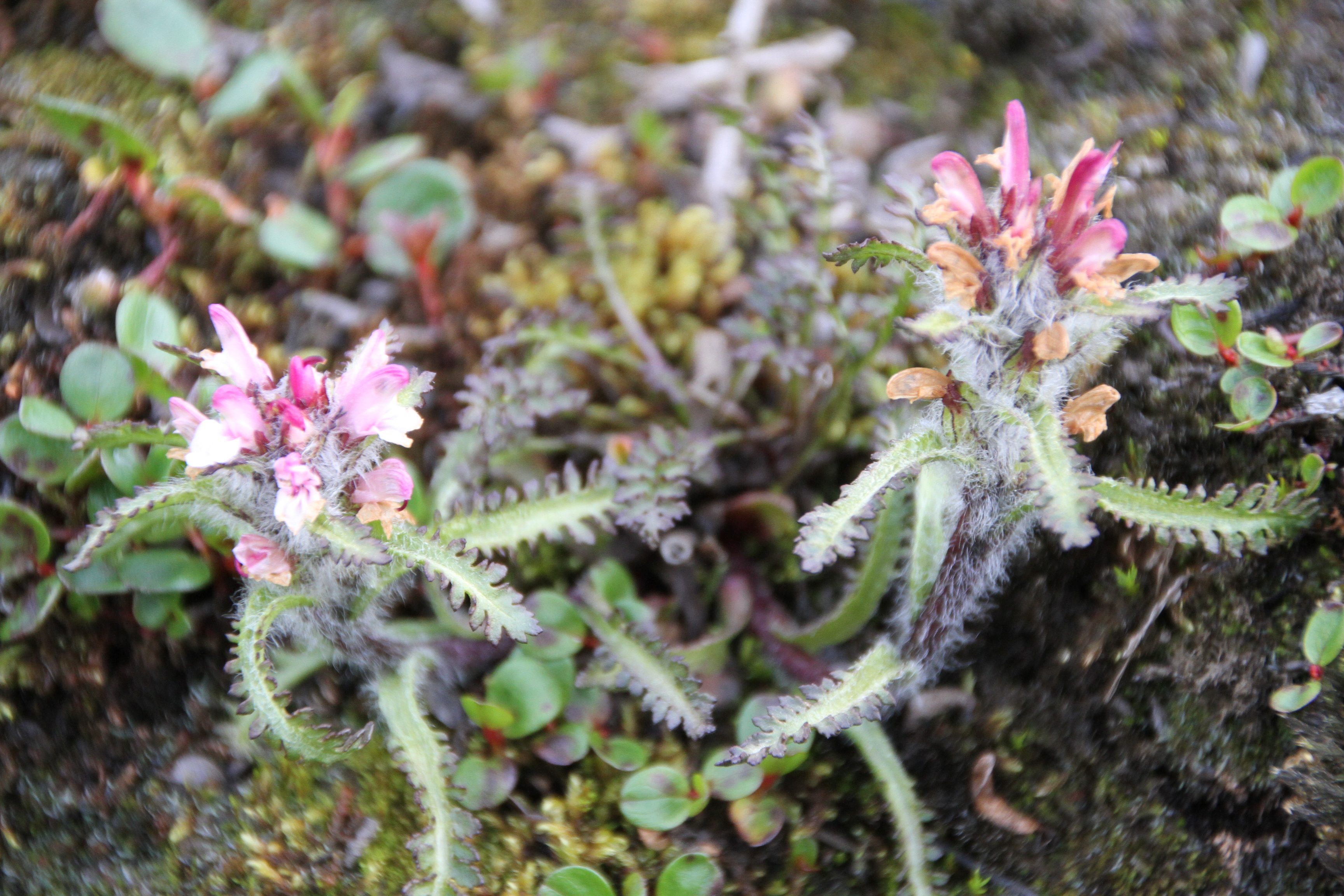 Flowerfrom the valley Endalen, at Spitsbergen, Svalbard.